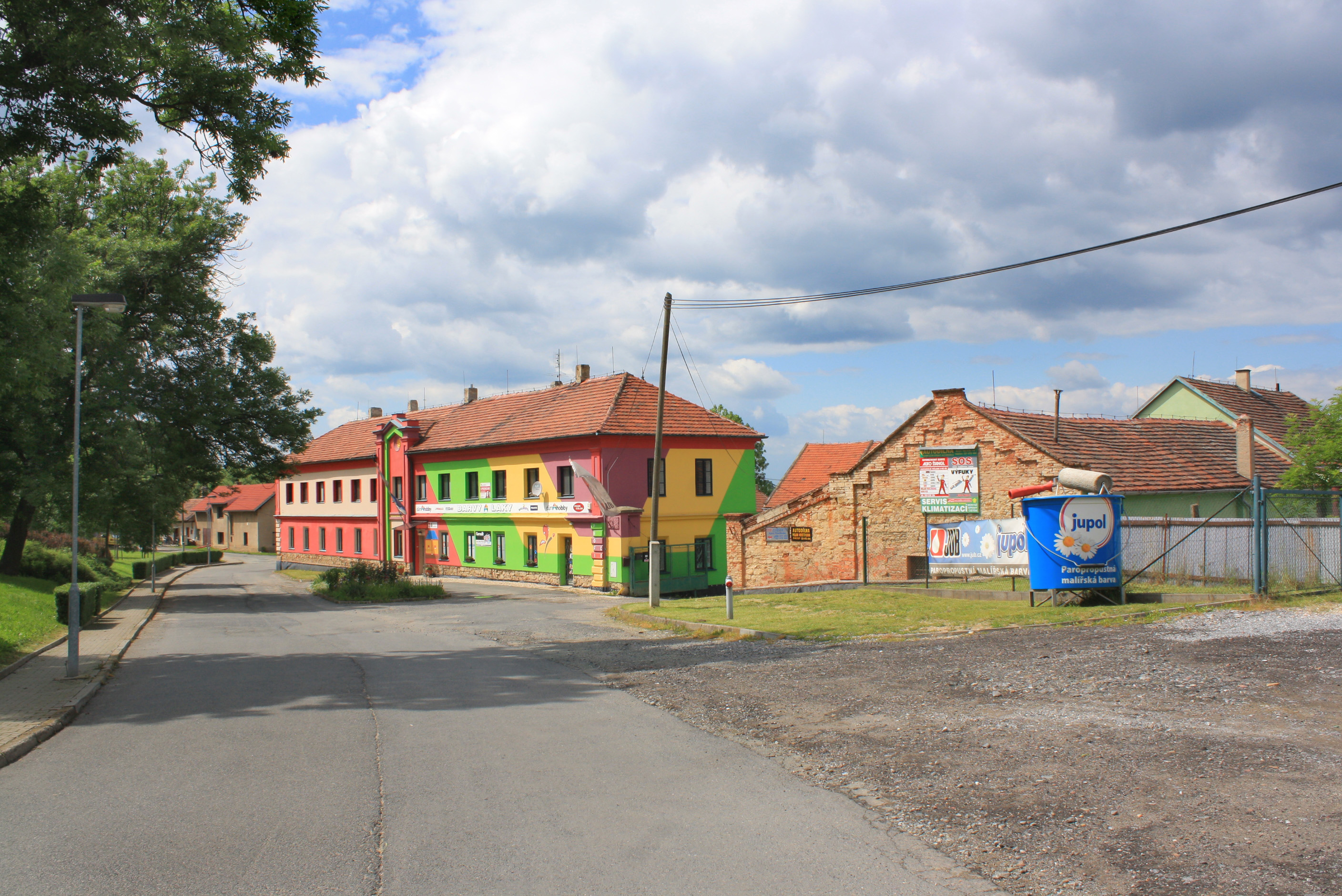 Upper common in Nová Ves II, part of Rostoklaty, Czech Republic